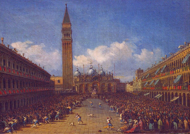 The process in the St. Mark`s square in Venice